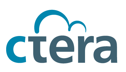 This is a logo for CTERA Networks